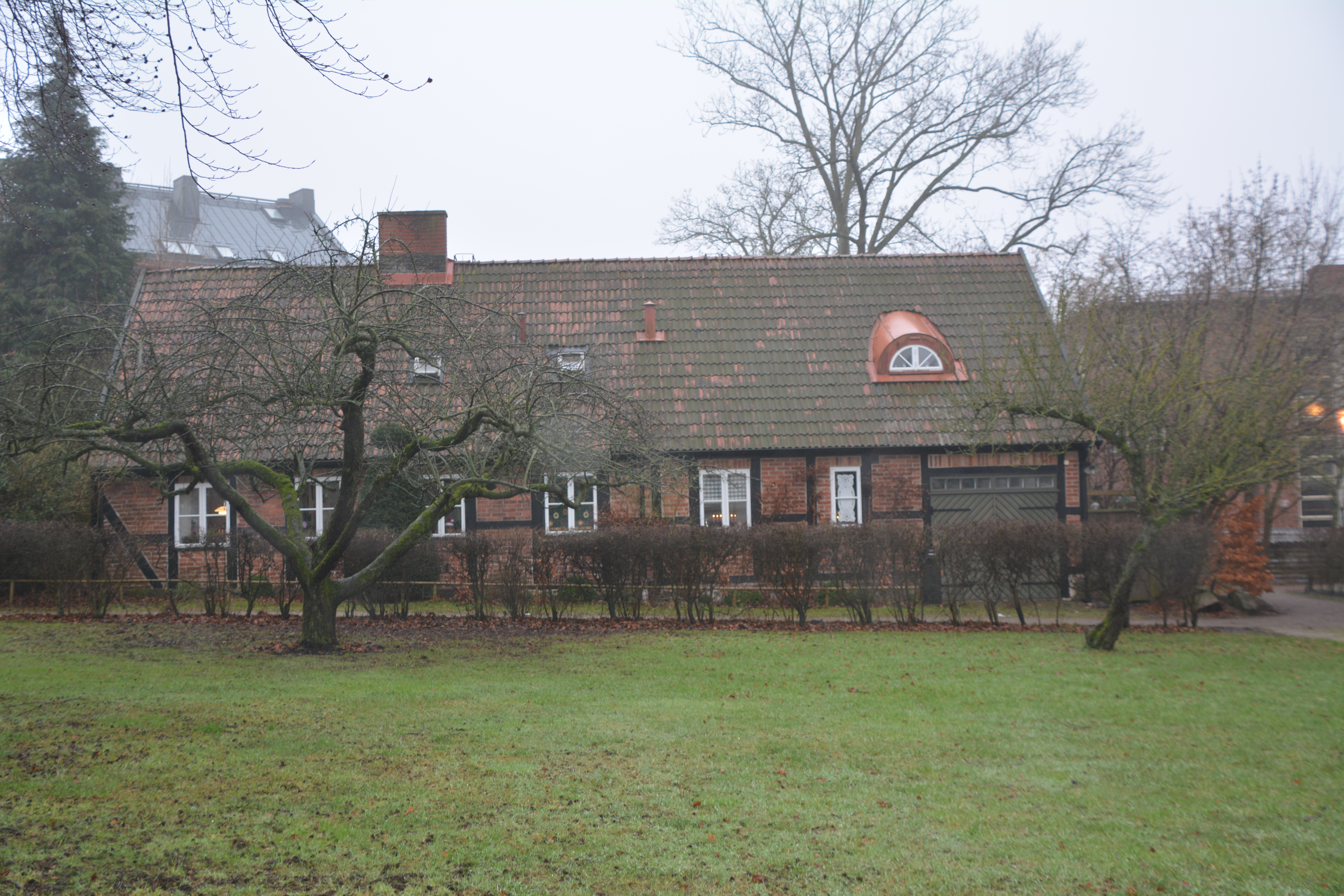 Tidigare stallet på Kråkelyckan 2 I Lund, mot Quennerstedtska villan